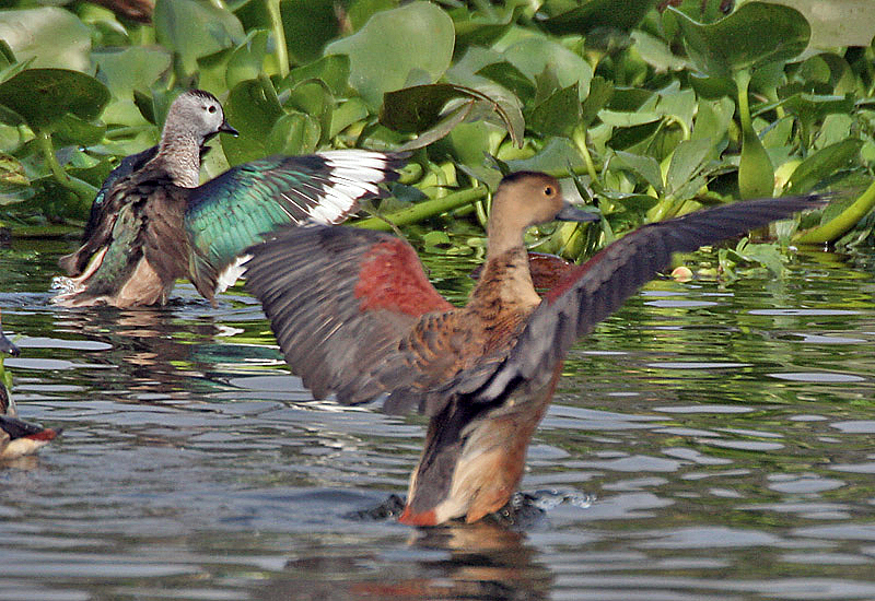 Cotton Pgymy Goose (Nettapus coromandelianus) in Kolkata, West Bengal, India.